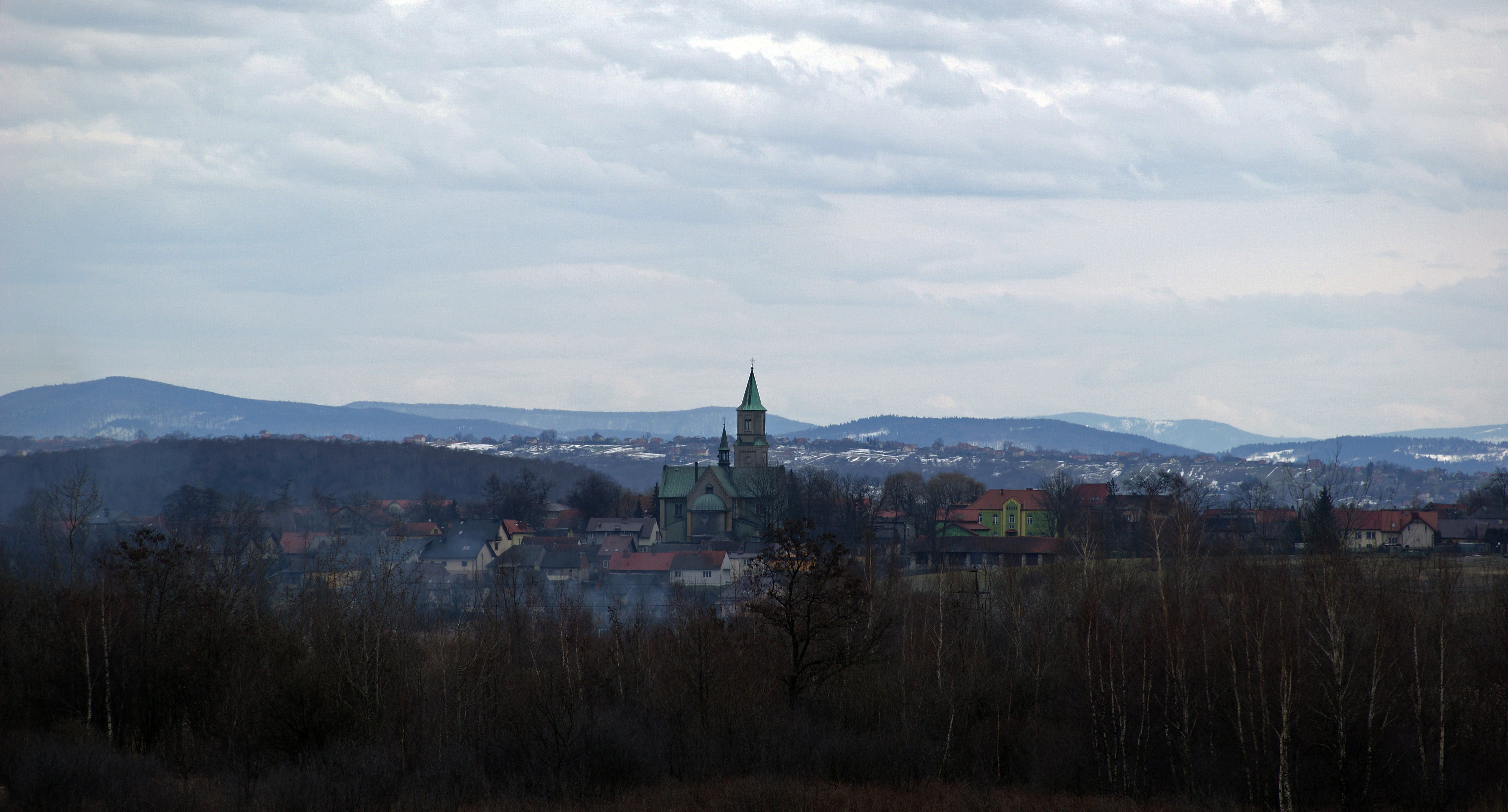 Liszki village (view from NW), Kraków County, Lesser Poland Voivodeship, Poland